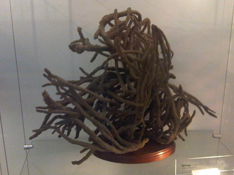 Callyspongia ramosa (Sponge - Porifera) at the Natural History Museum in London, England.